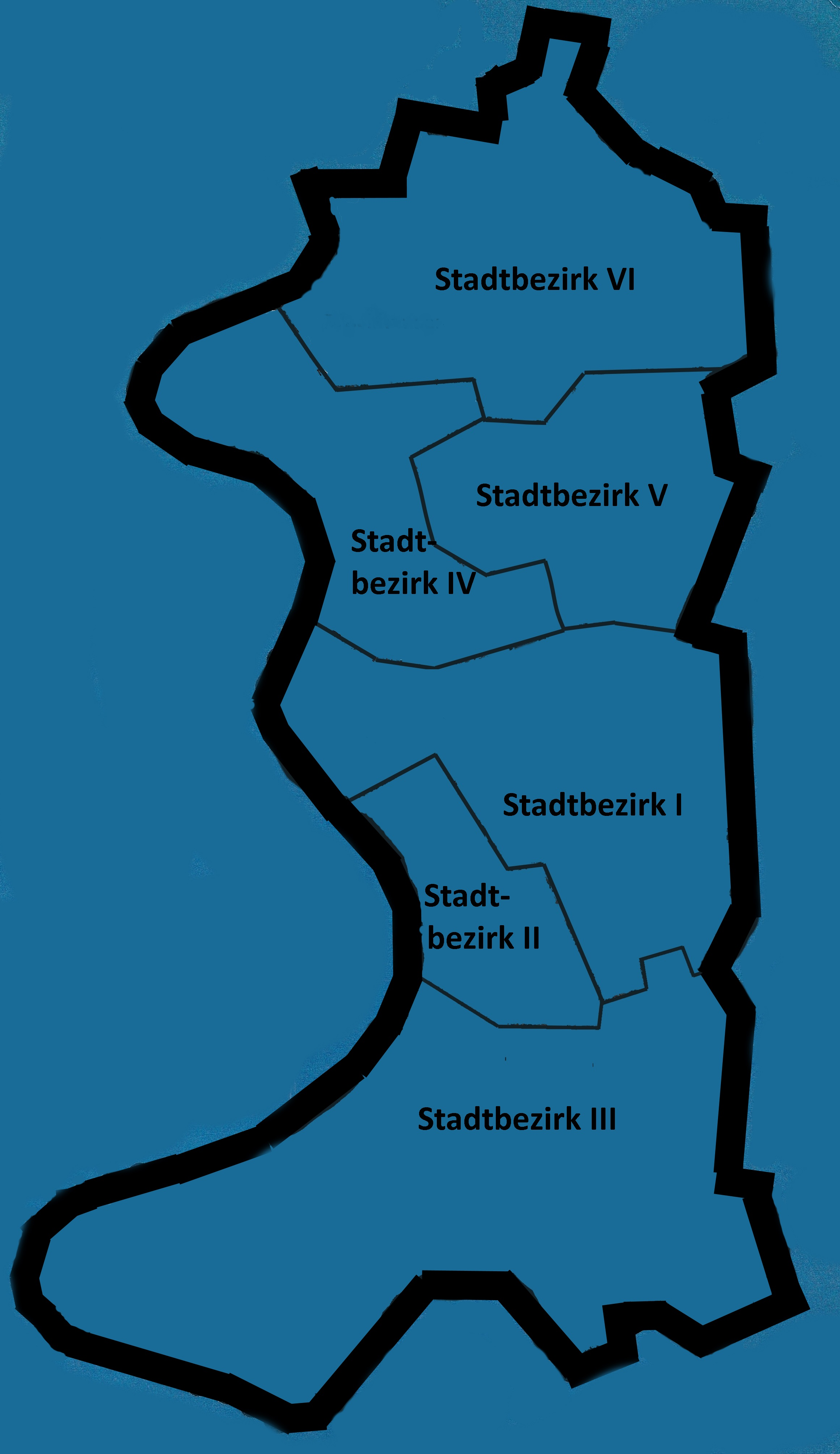 Duisburg - districts before municipal reorganization on 1st January, 1975.